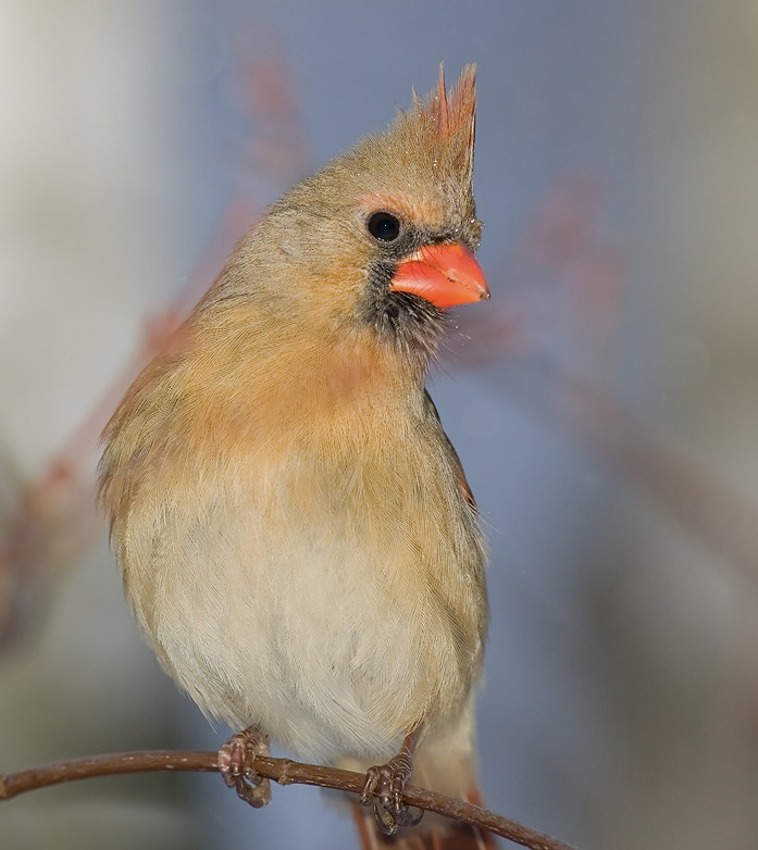 female northern cardinal